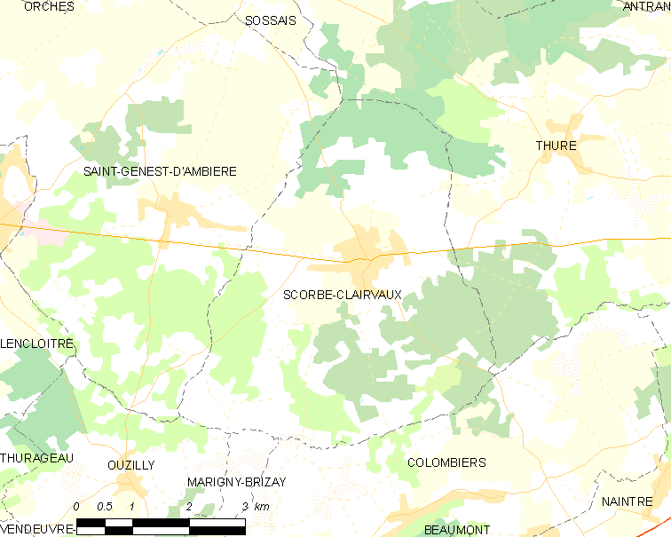 Map of French municipality Scorbé-Clairvaux